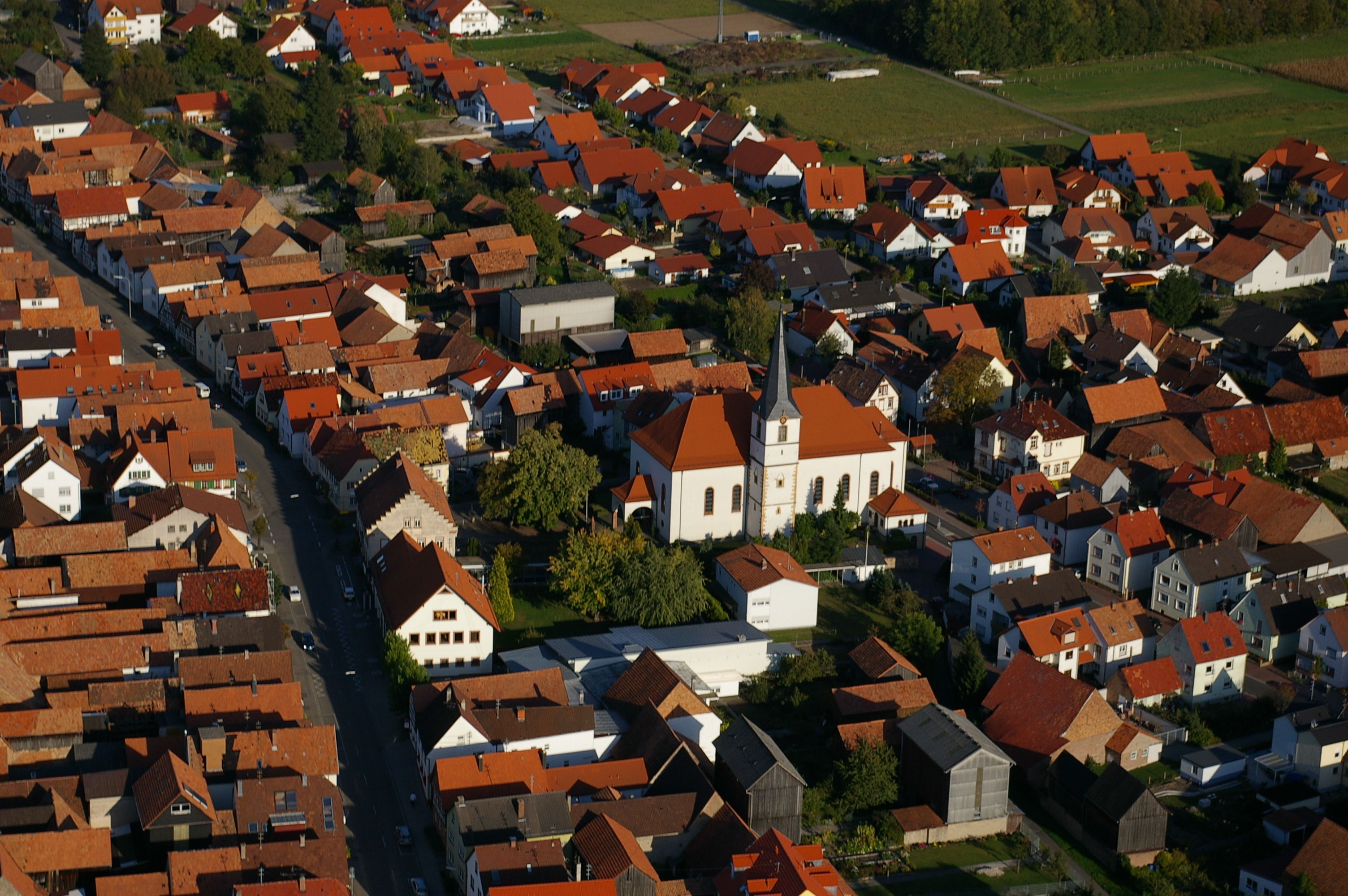 own work